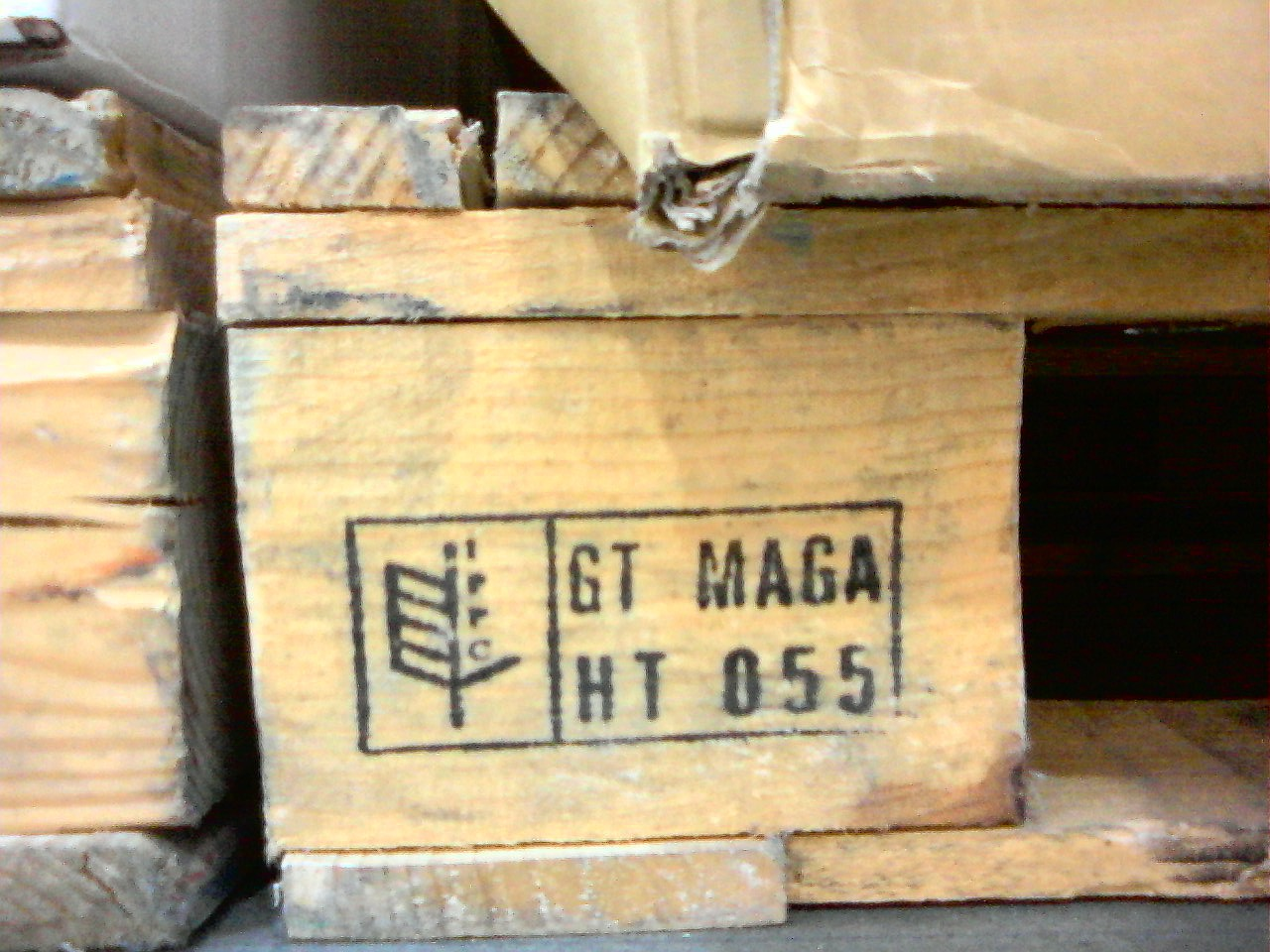 ISPM 15 markings on a pallet from Guatemala, taken at a Costco in Canada.